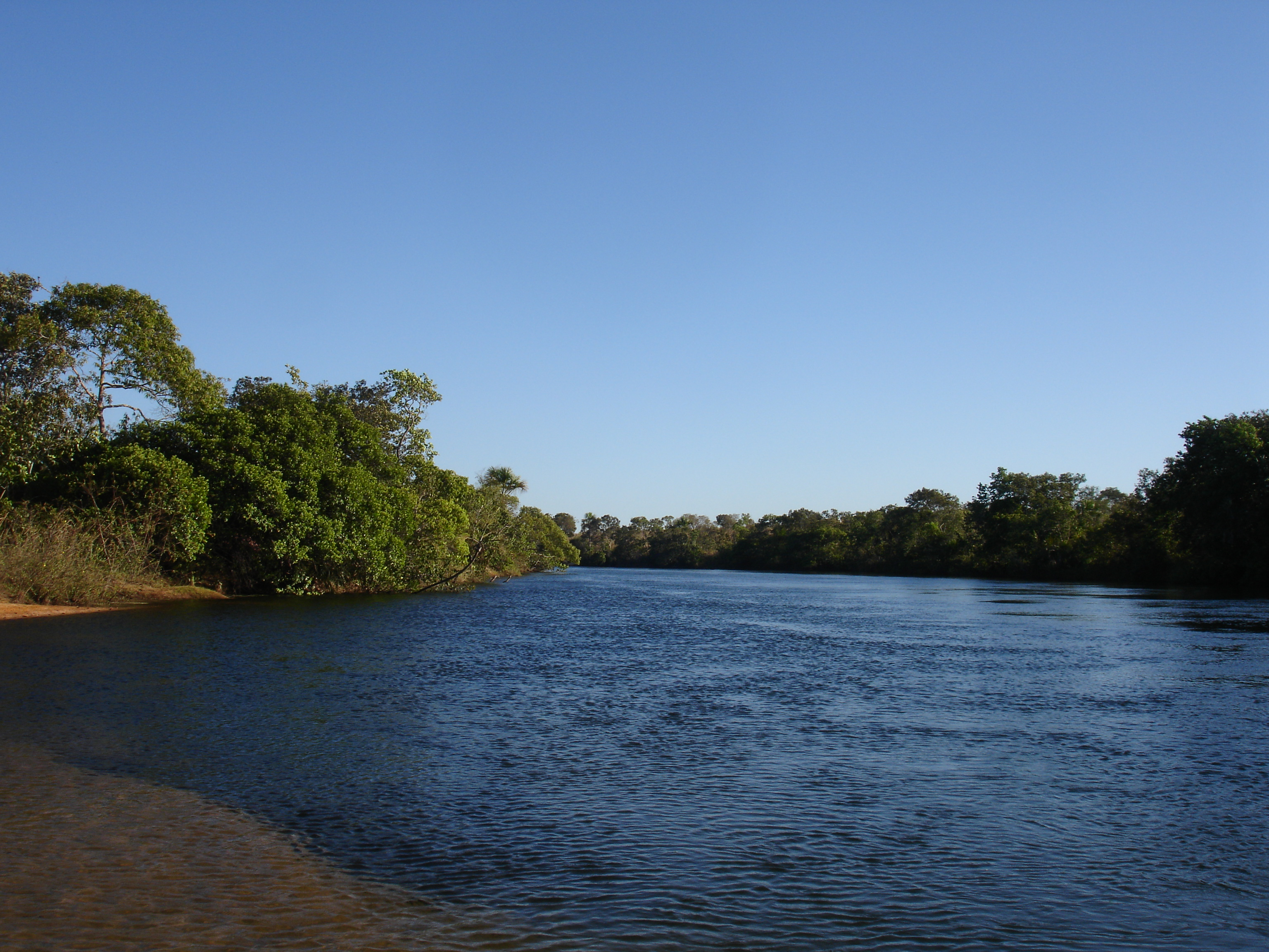 Rio Novo at the Jalapão, one of the biggest rivers in the world whose water is still drinkable.